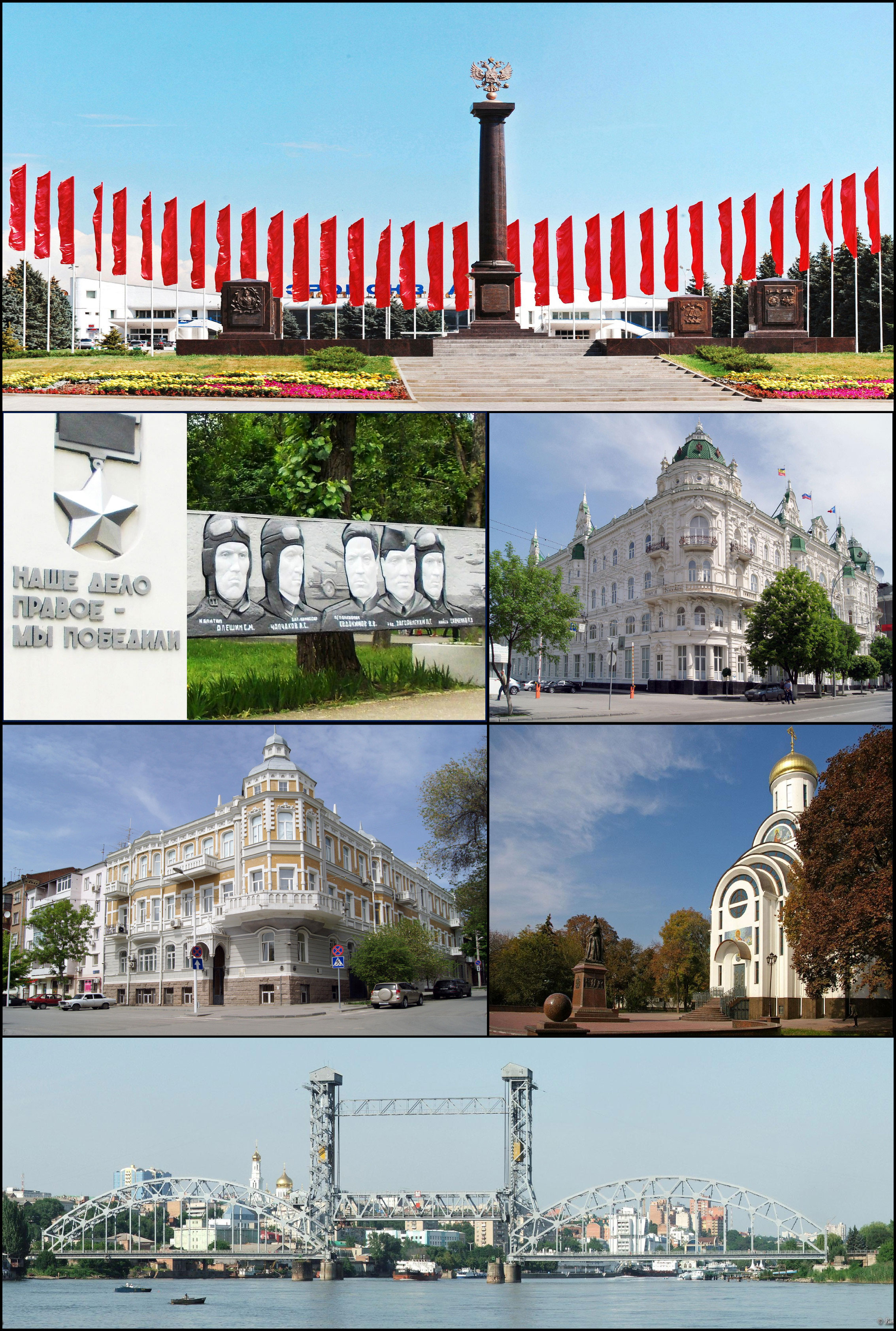 Rostov-on-Don collage: Stela «City of Military Glory» Memorial museum "Dead soldiers" (Rostov-on-Don) Building City Council House Ivan Zvorykina Pokrovskaya church Rostov railroad drawbridge